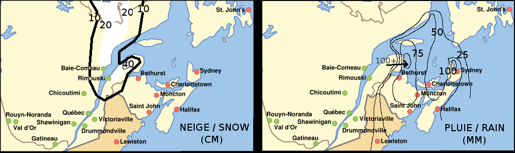 Accumulations of rain and snow left by the estra-tropical transition of Hurricane Noel (3-4 november 2007)